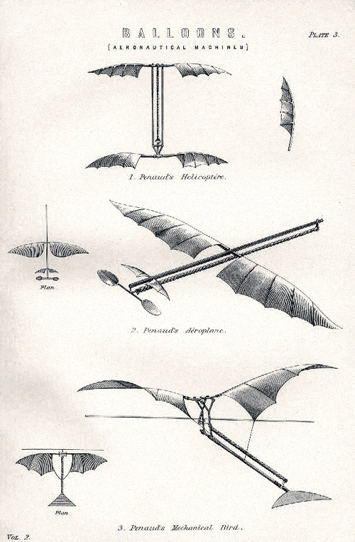 Three of Alphonse Pénaud's flying models. Top to bottom: the Hèlicoptère, the Planophore and the flapping wing Mechanical Bird. Early 1870s.